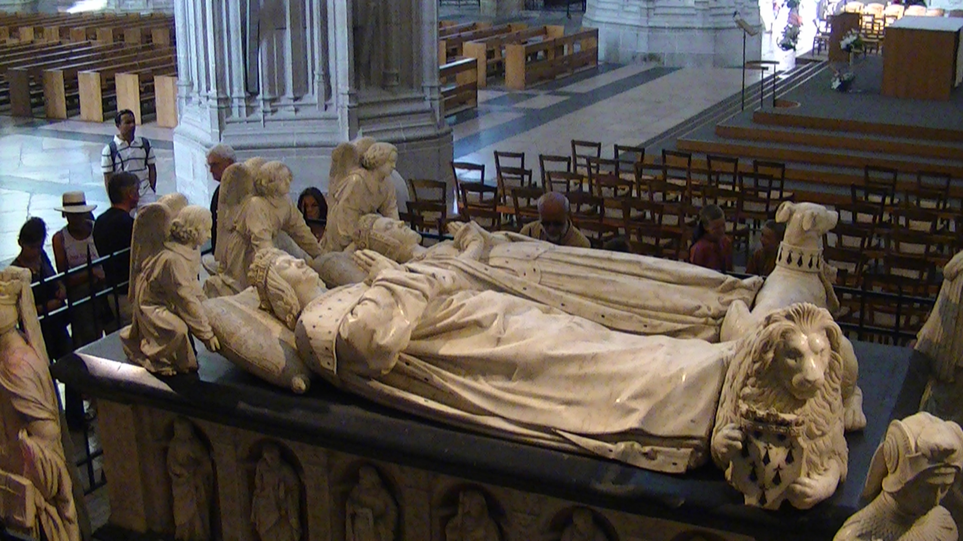 Tomb of Duke Francis II of Brittany in Nantes Cathedral, seen from the newly-installed stairs which allow it to be viewed from above